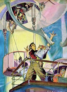 Illustration by Frank Xavier Leyendecker from Kipling's "With the Night Mail", 1905. URL